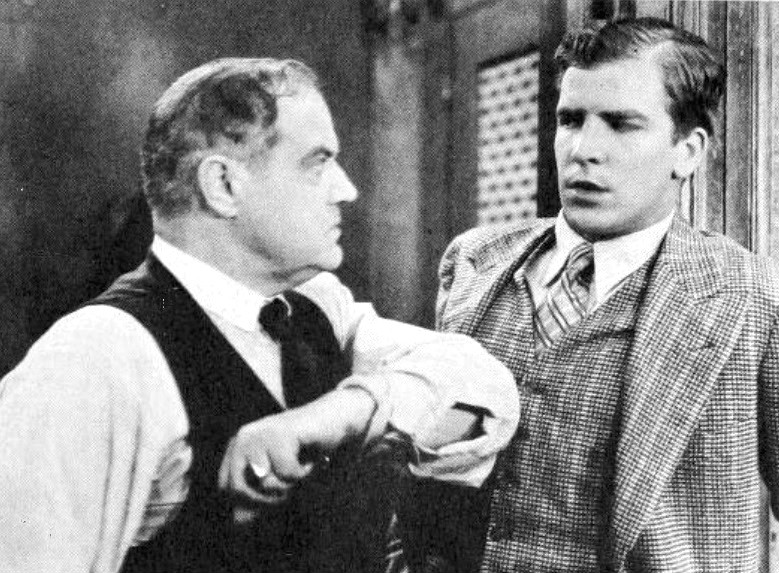 Anders Randolph (left) and Don Terry in a scene from the 1928 film Me, Gangster.